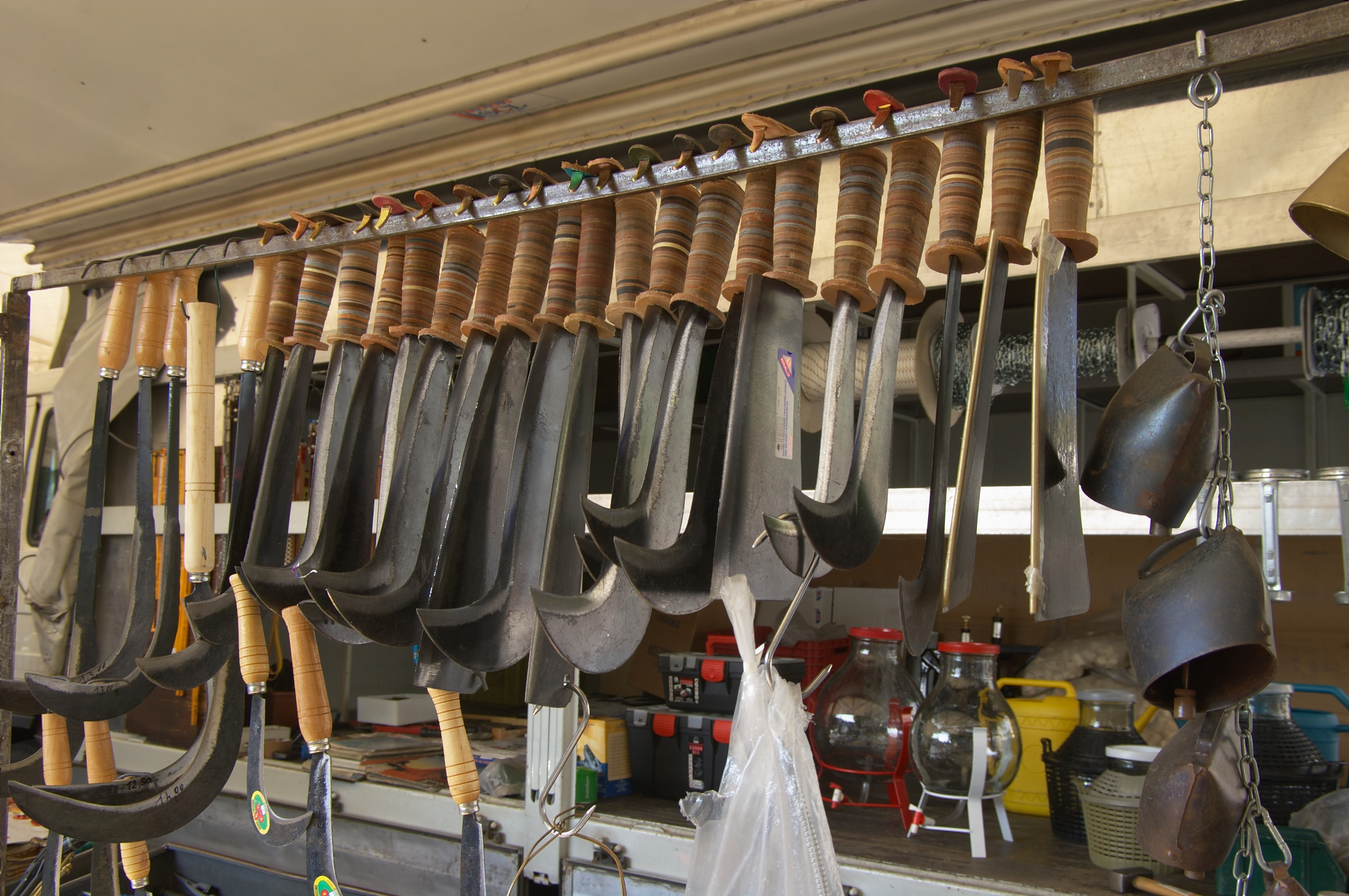 Billhooks at the market of Ceva, Italy.